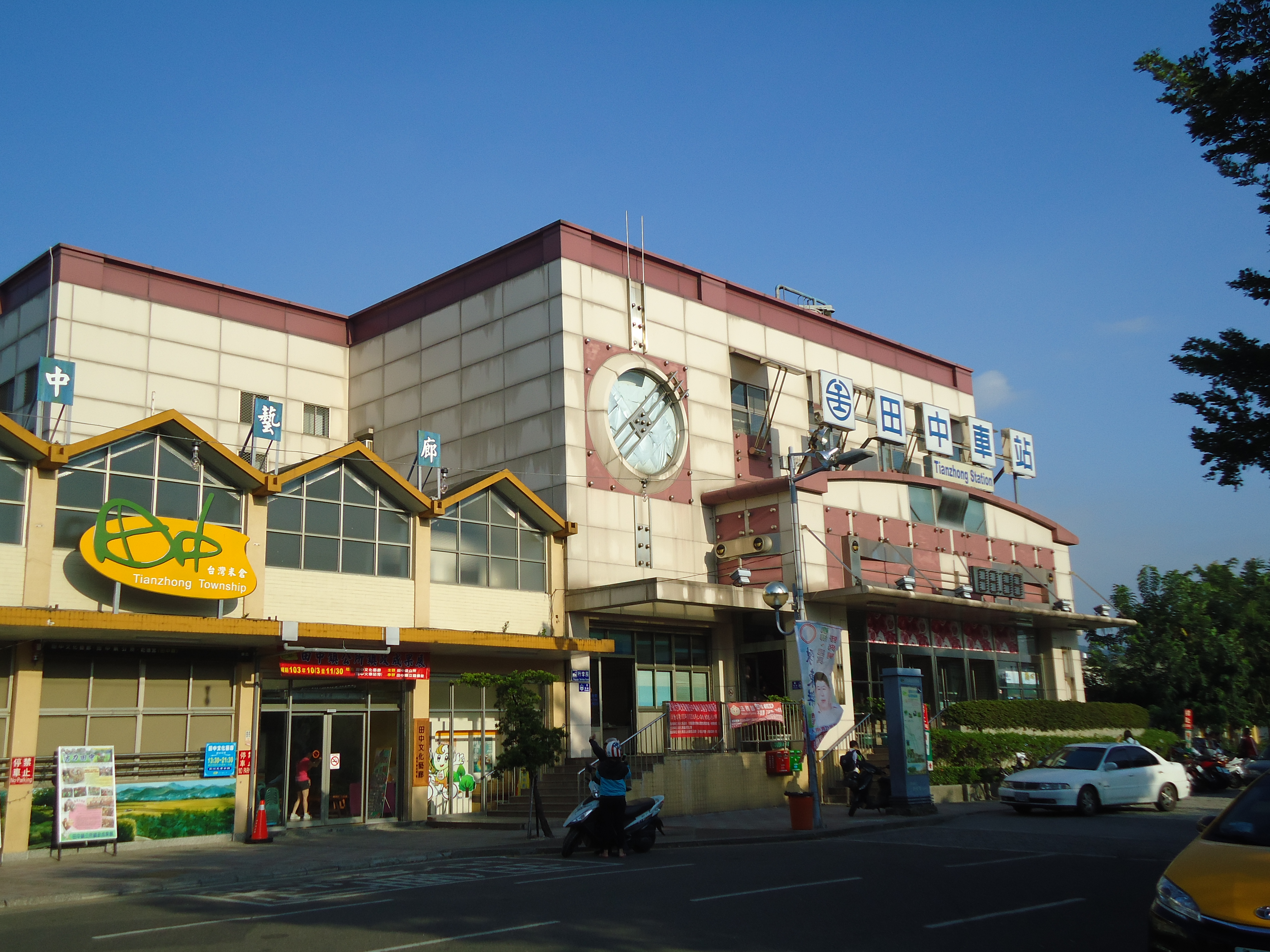 田中車站 Tianzhong Station